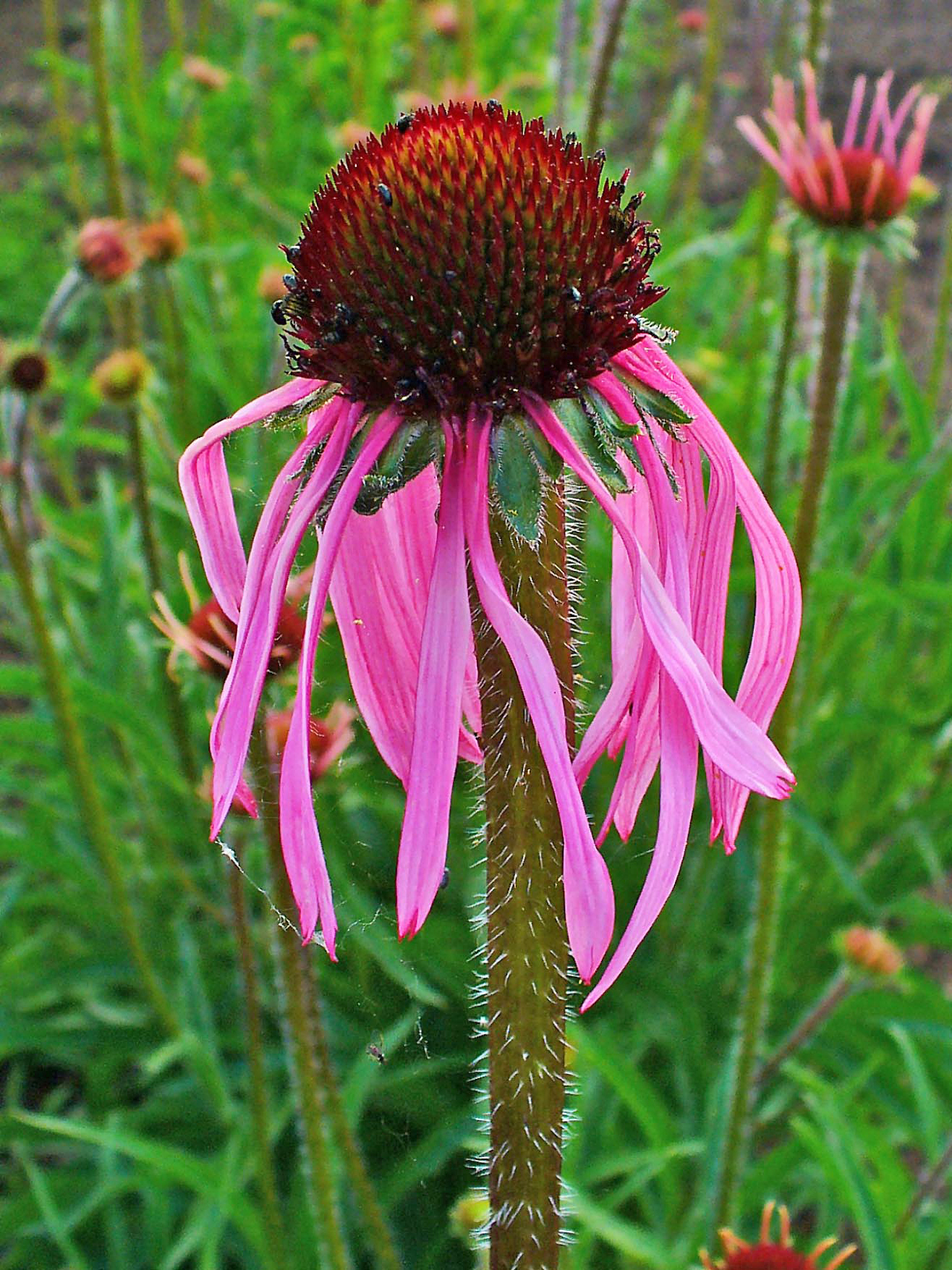 Echinacea pallida, Asteraceae, Pale Purple Cone-flower, inflorescence. The plant is used in homeopathy as remedy: Echinacea (Echi.)